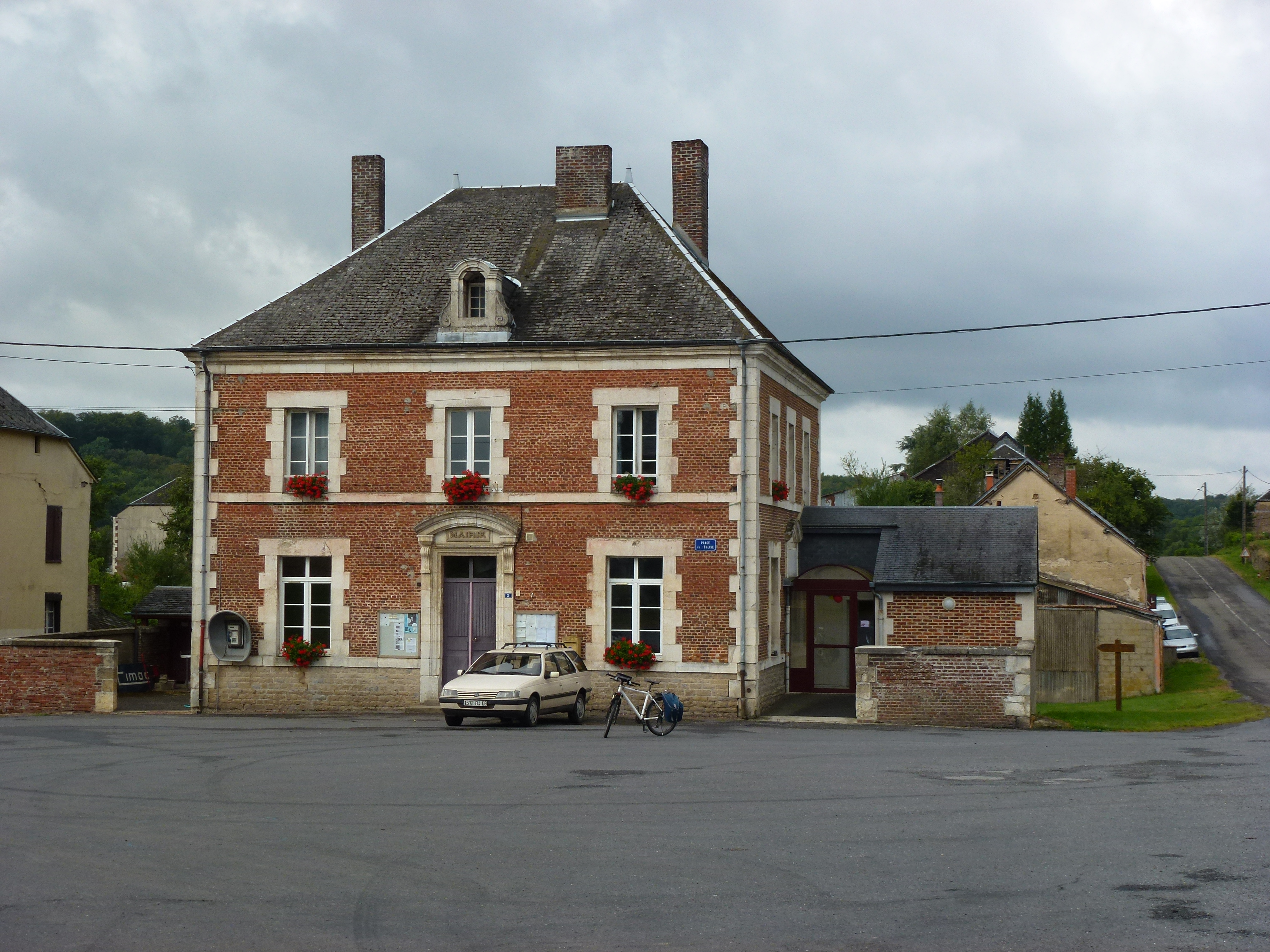 Dommery (Ardennes) mairie